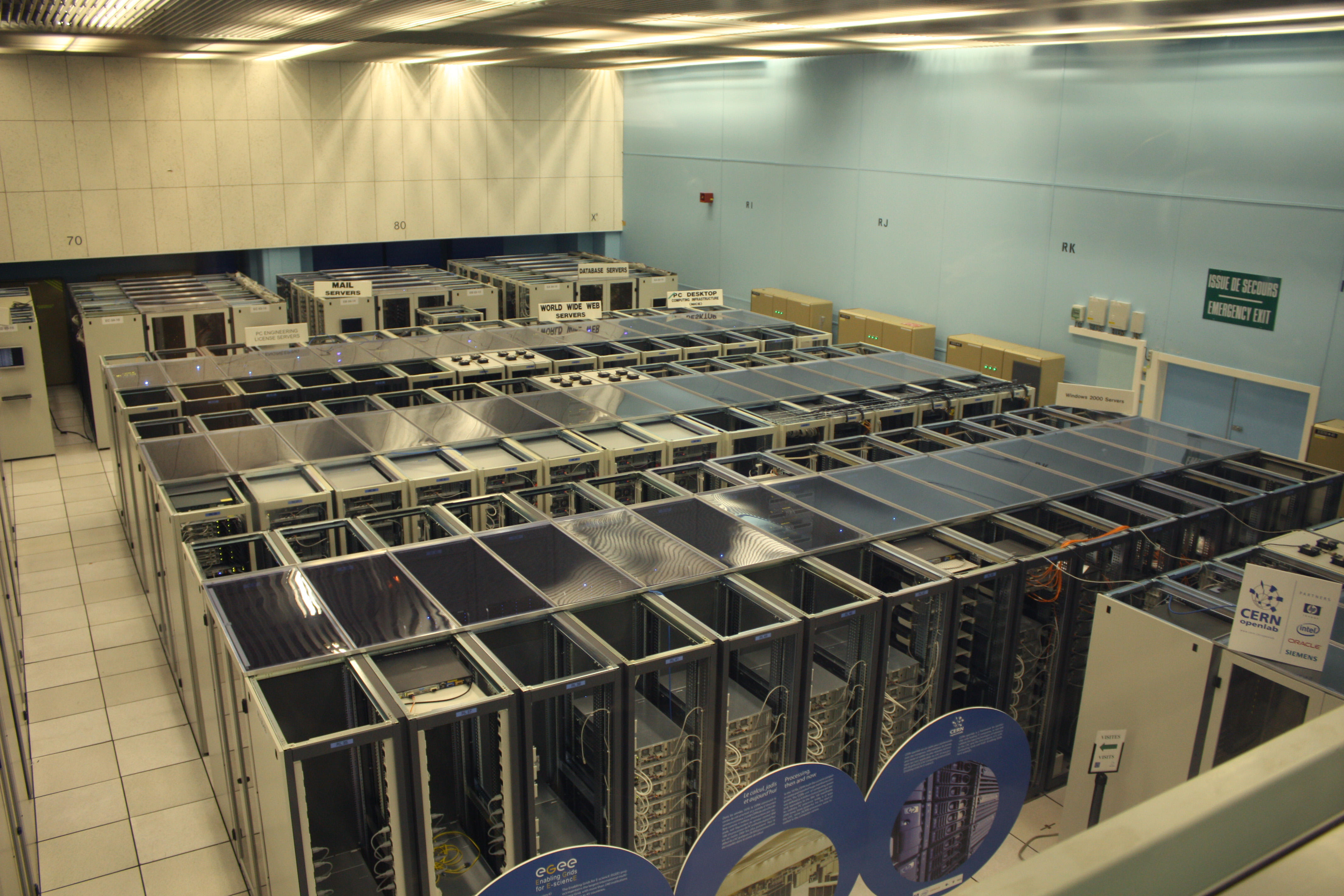 The CERN datacenter with World Wide Web and Mail servers. The rear of the equipment racks are exposed to the room, indicating cold aisle containment is being practiced.